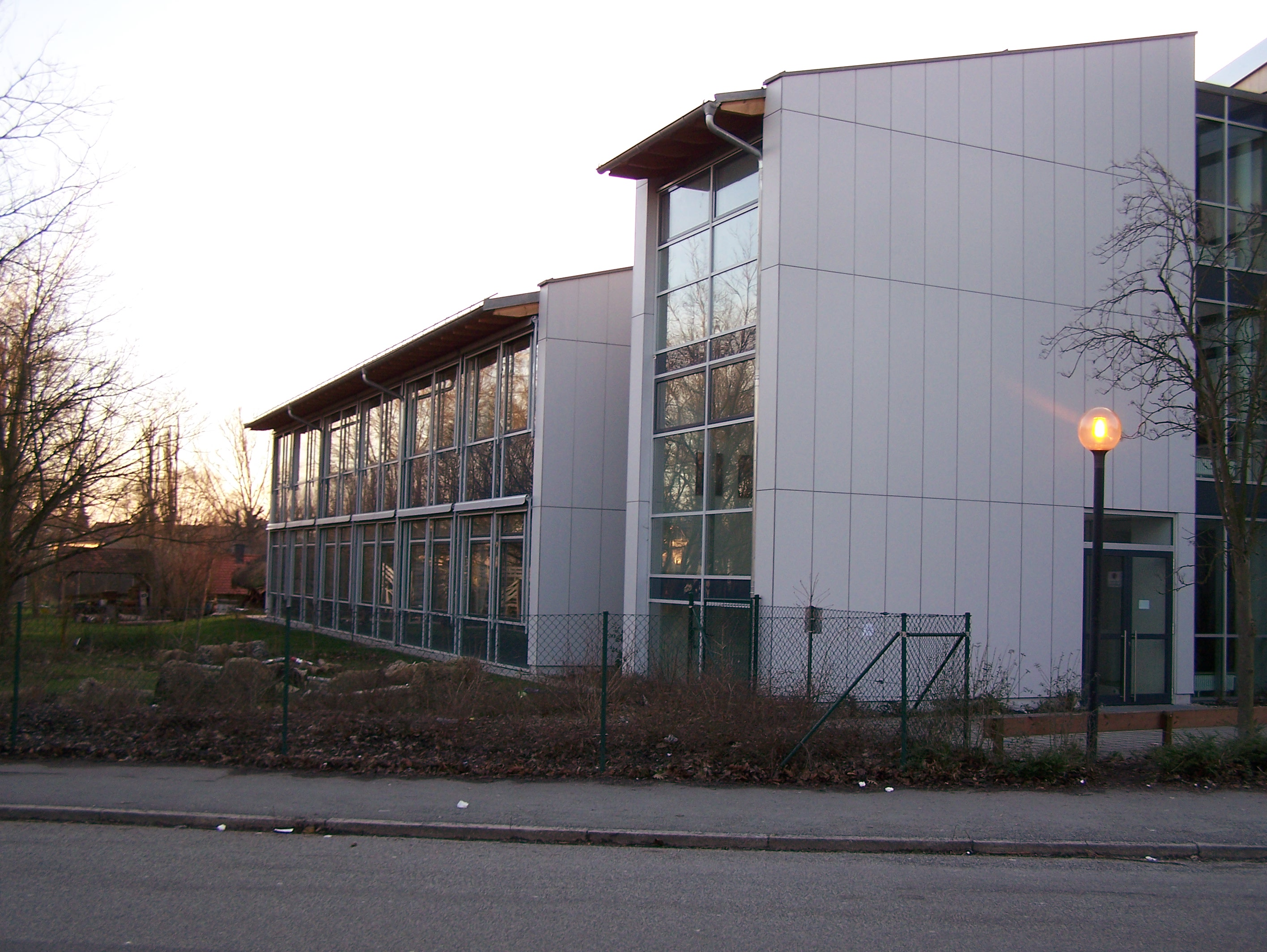 Wing E of the Christoph Jacob Treu Gymnasium (high school) in Lauf an der Pegnitz, Germany.